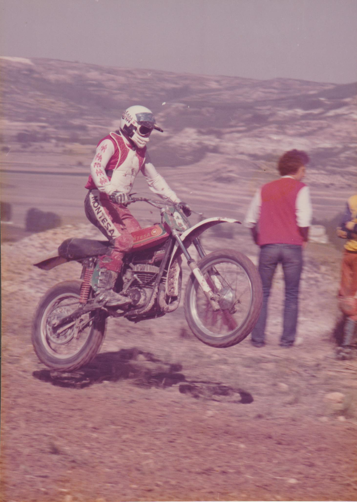 Domingo Gris at 1976 Yunquera de Henares Motocross (it was not on 1975, as the filename says)